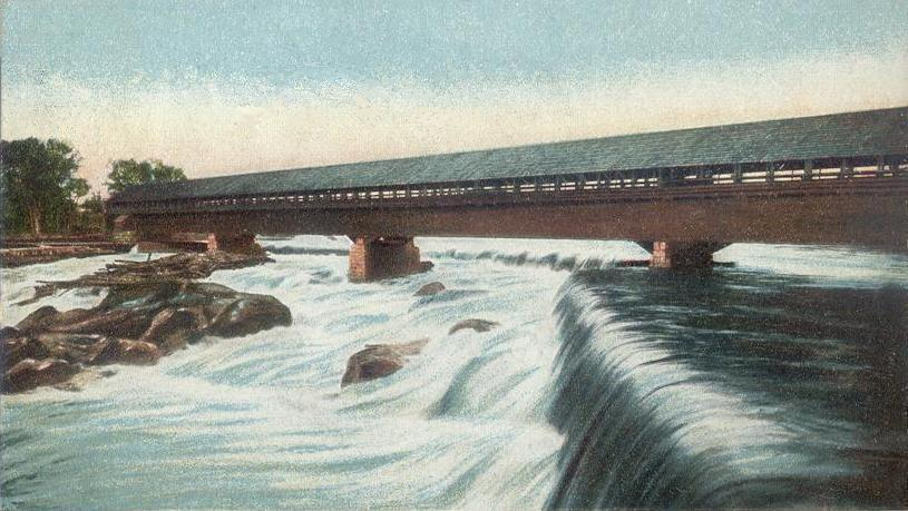 Amoskeag Falls, Merrimack River, Manchester, NH; from a 1906 postcard.